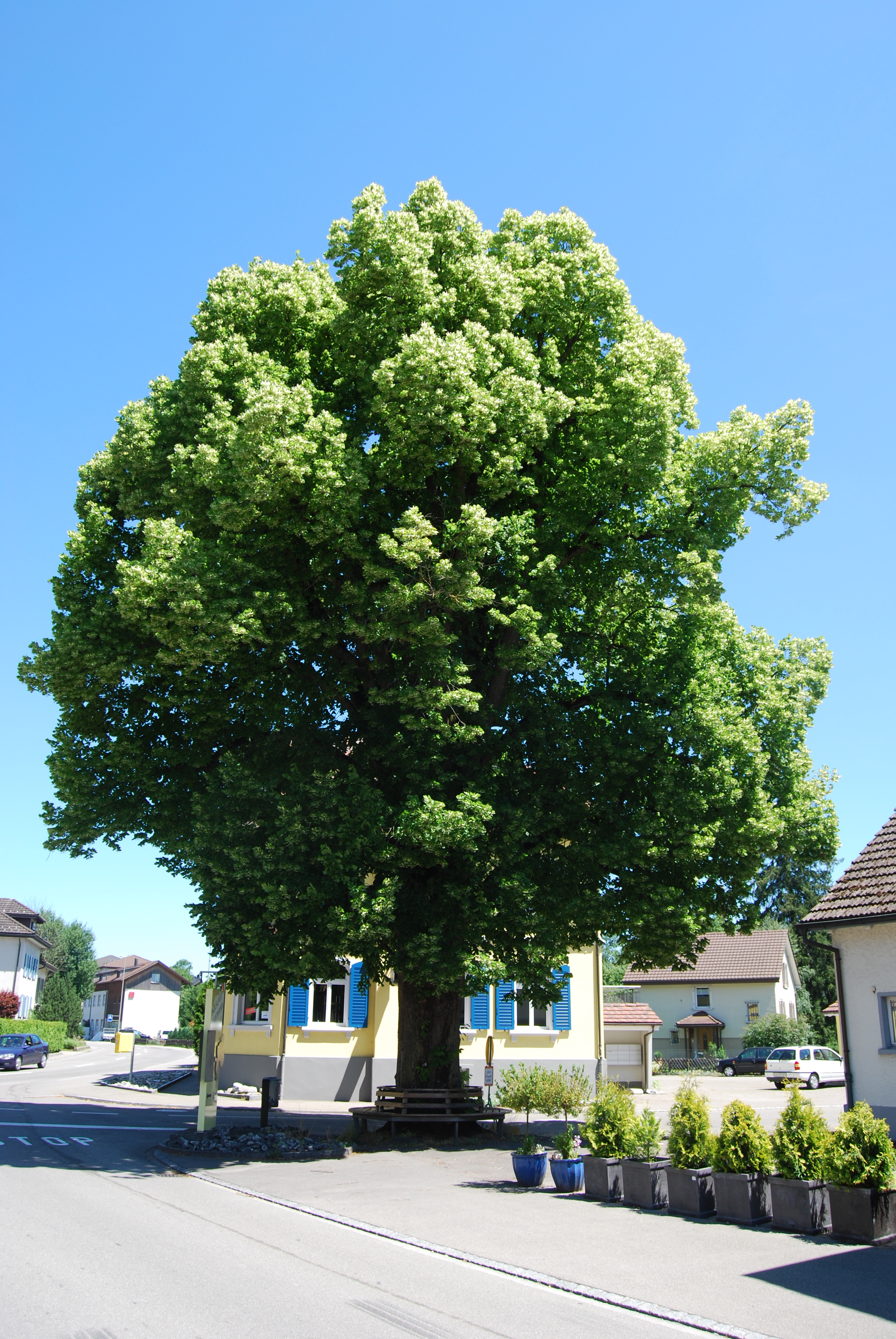 Tilia at Sirnach, canton of Thurgovia, Switzerland